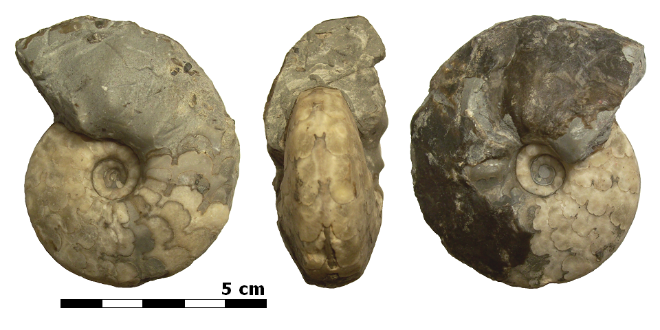 Buchicerras cf. B. bilobatum Hyatt. Specimen from Peru (Cajamarca region).